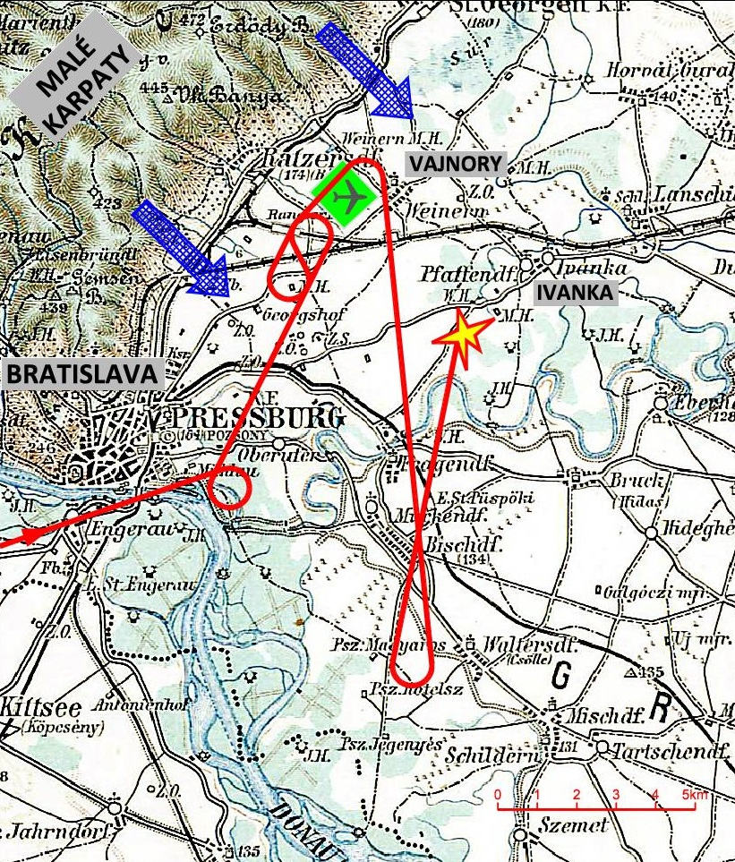 Possibile flightpath of Ca.33 No.11495 before crash